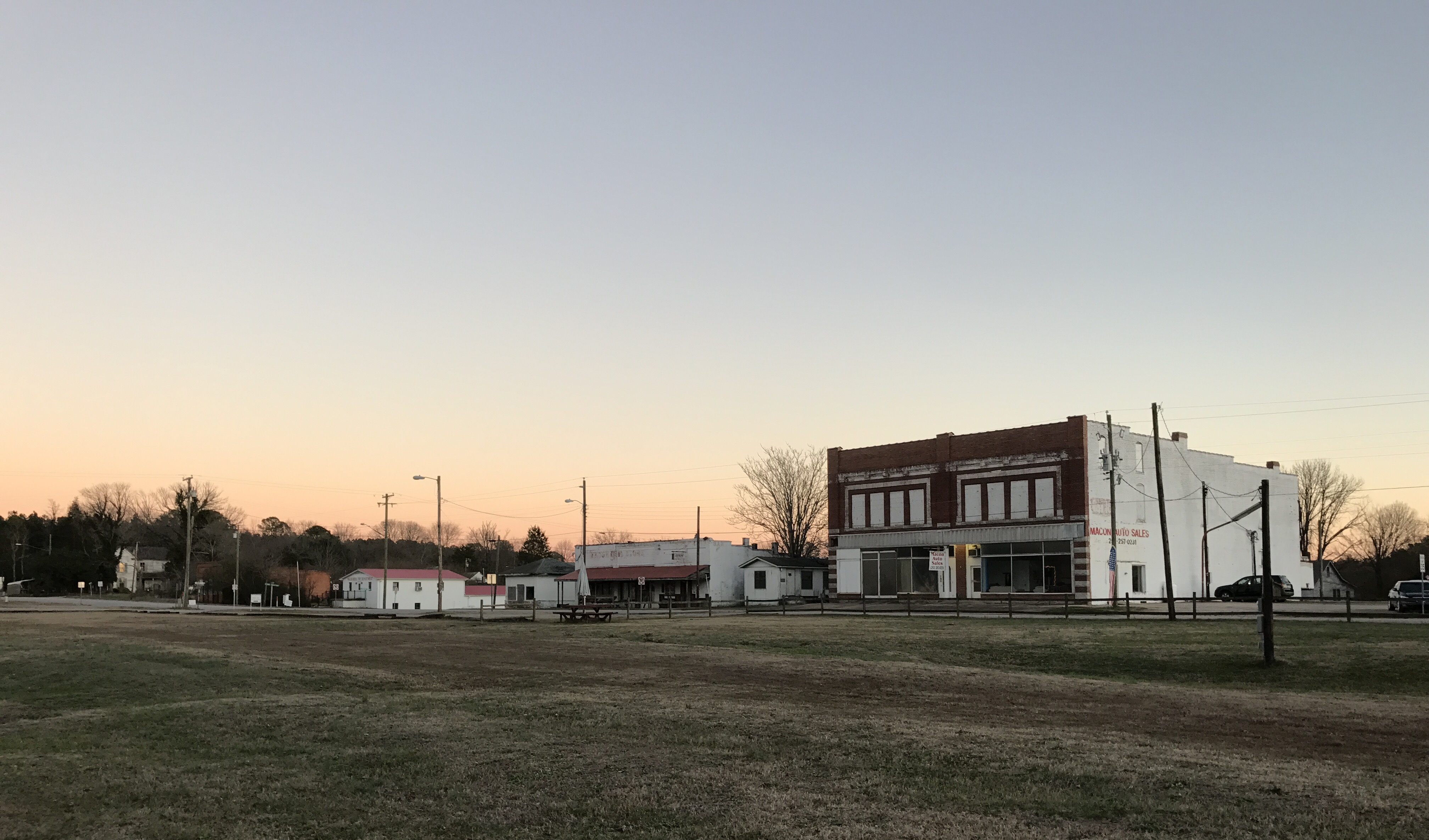 Buildings in Macon along Highway 158